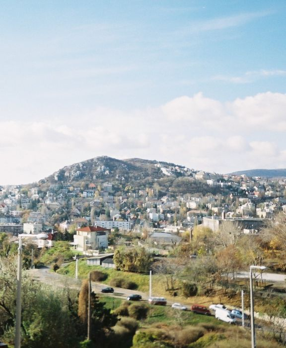 october 2005, view from Gellért-hegy